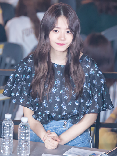 Sohye at the Overwatch Summer Hit event on July 22, 2017